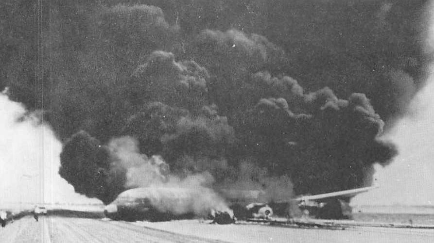 United Air Lines N8040U after accident